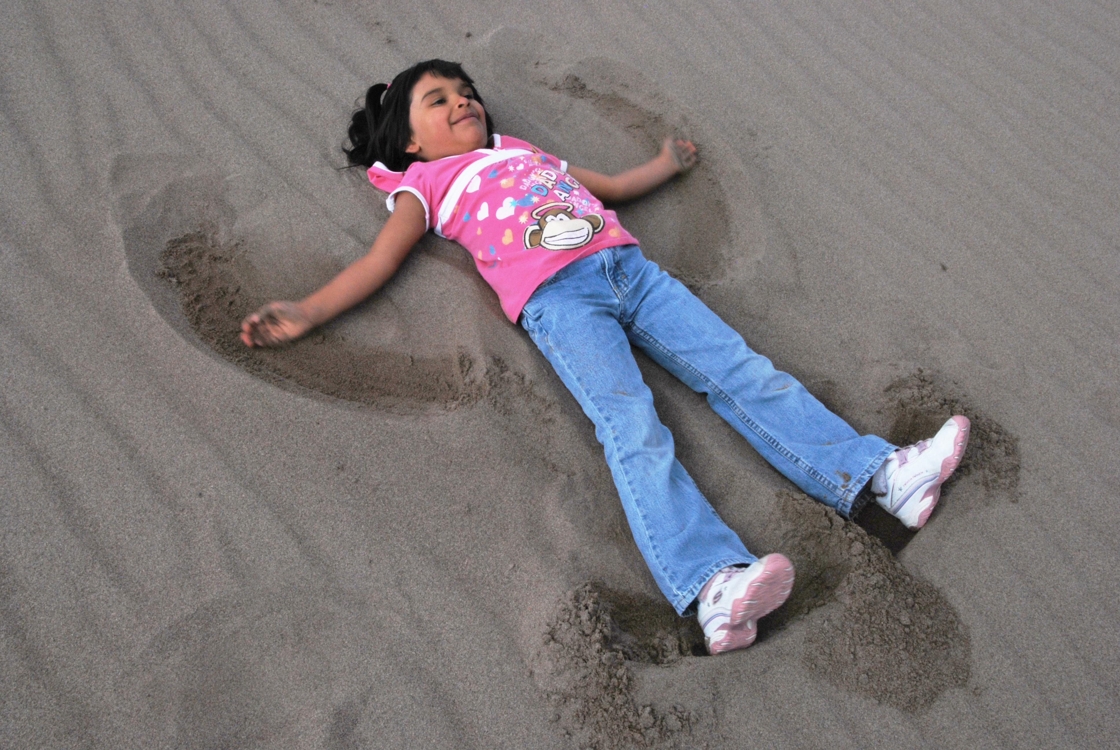 NPS/Patrick Myers